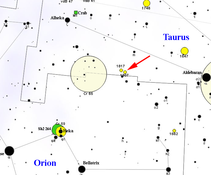 Map of NGC 1807